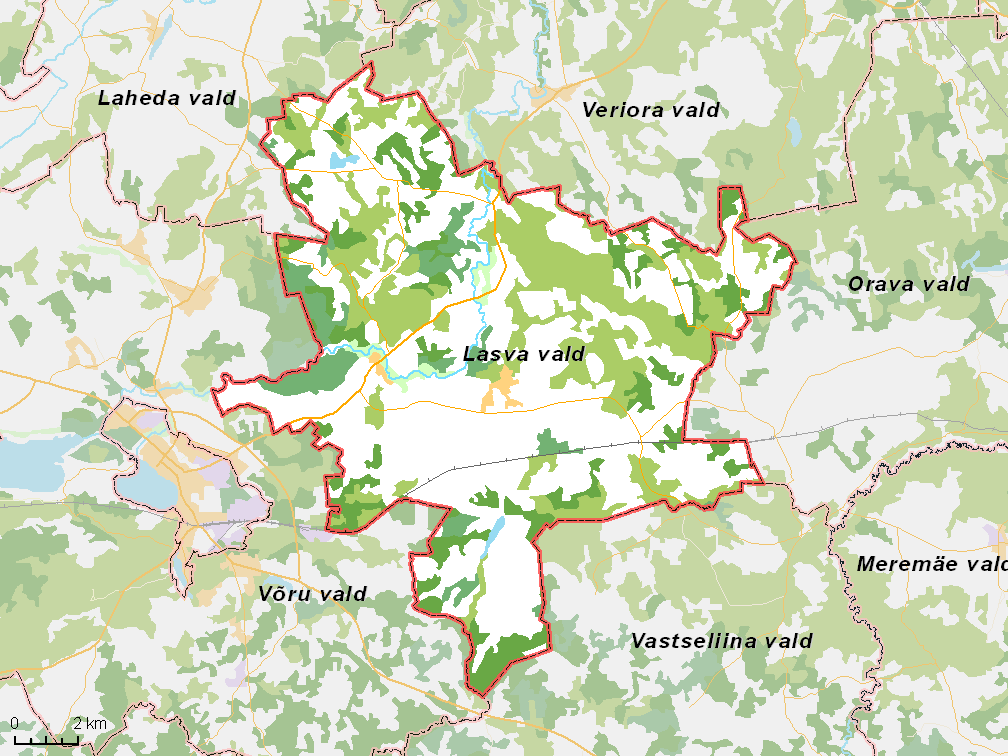 Map of municipality in Estonia